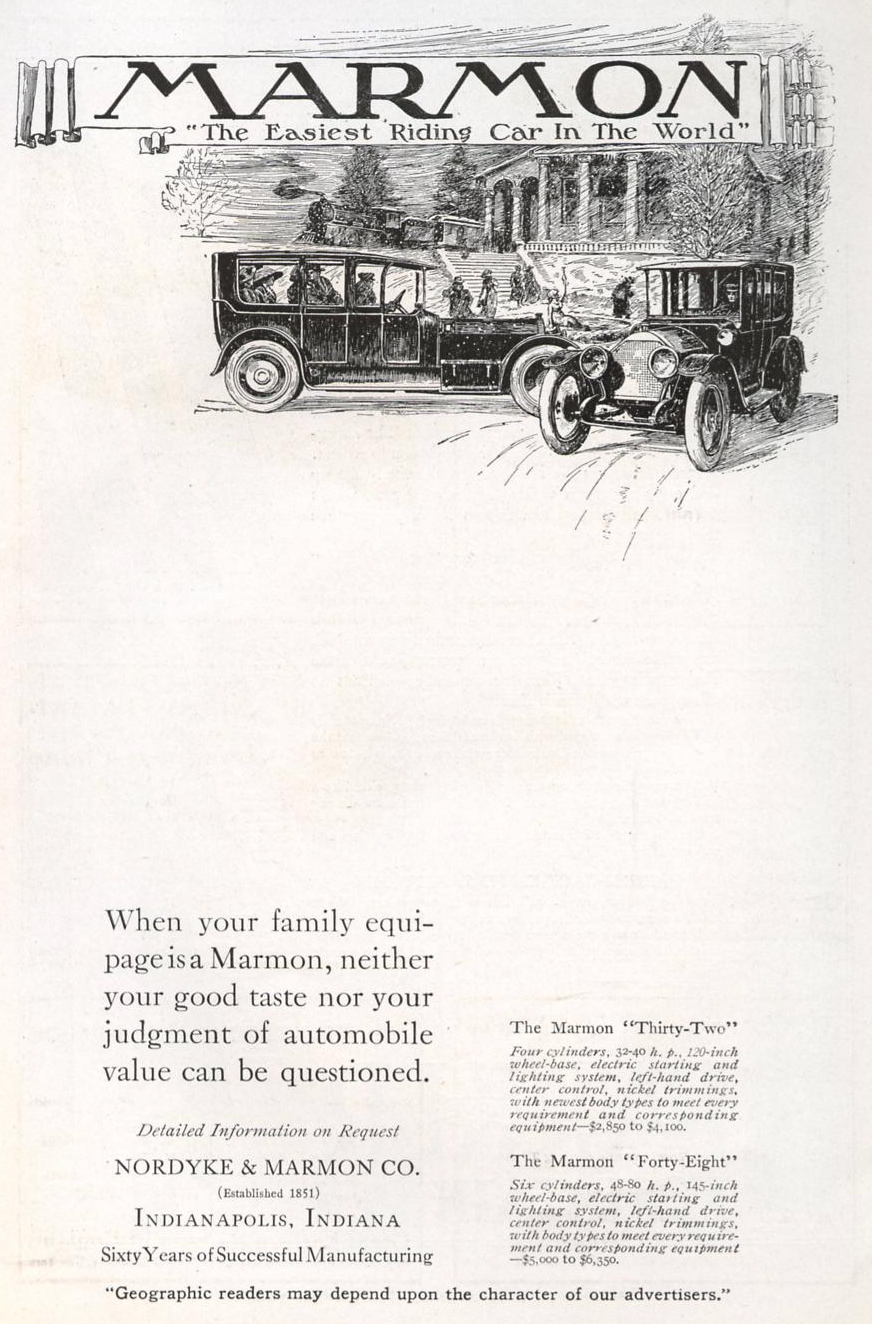 Advertisement for "Marmon" automobiles, 1913 (with a curiously large amount of white space)